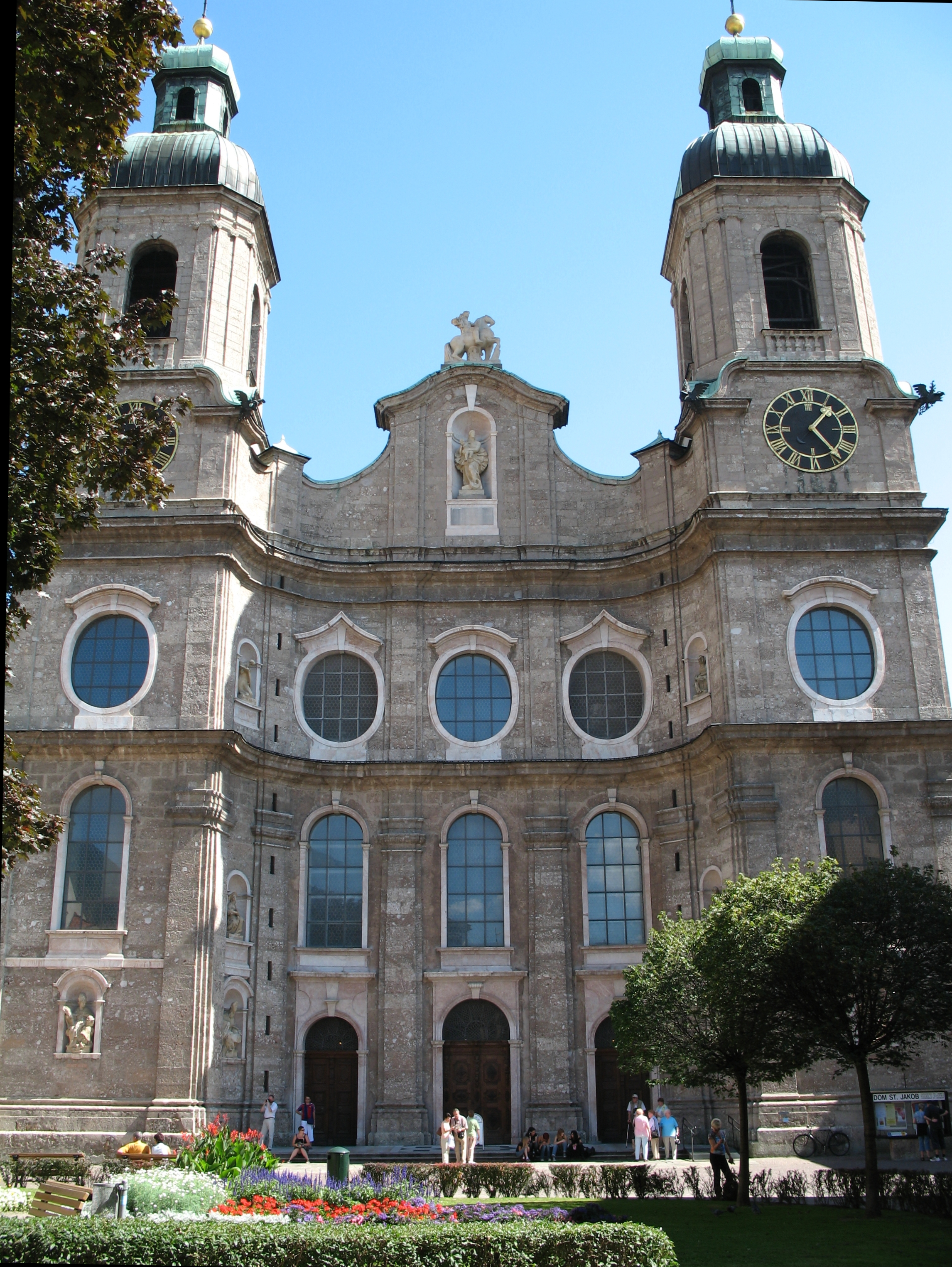 Dom St. Jakob in Innsbruck